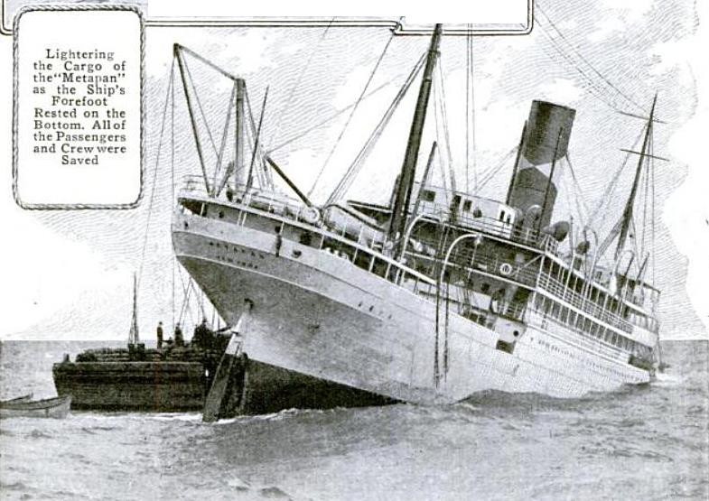 Photograph of the SS Metapan, a United Fruit ship hit and sunk by the SS Iowan in 1914